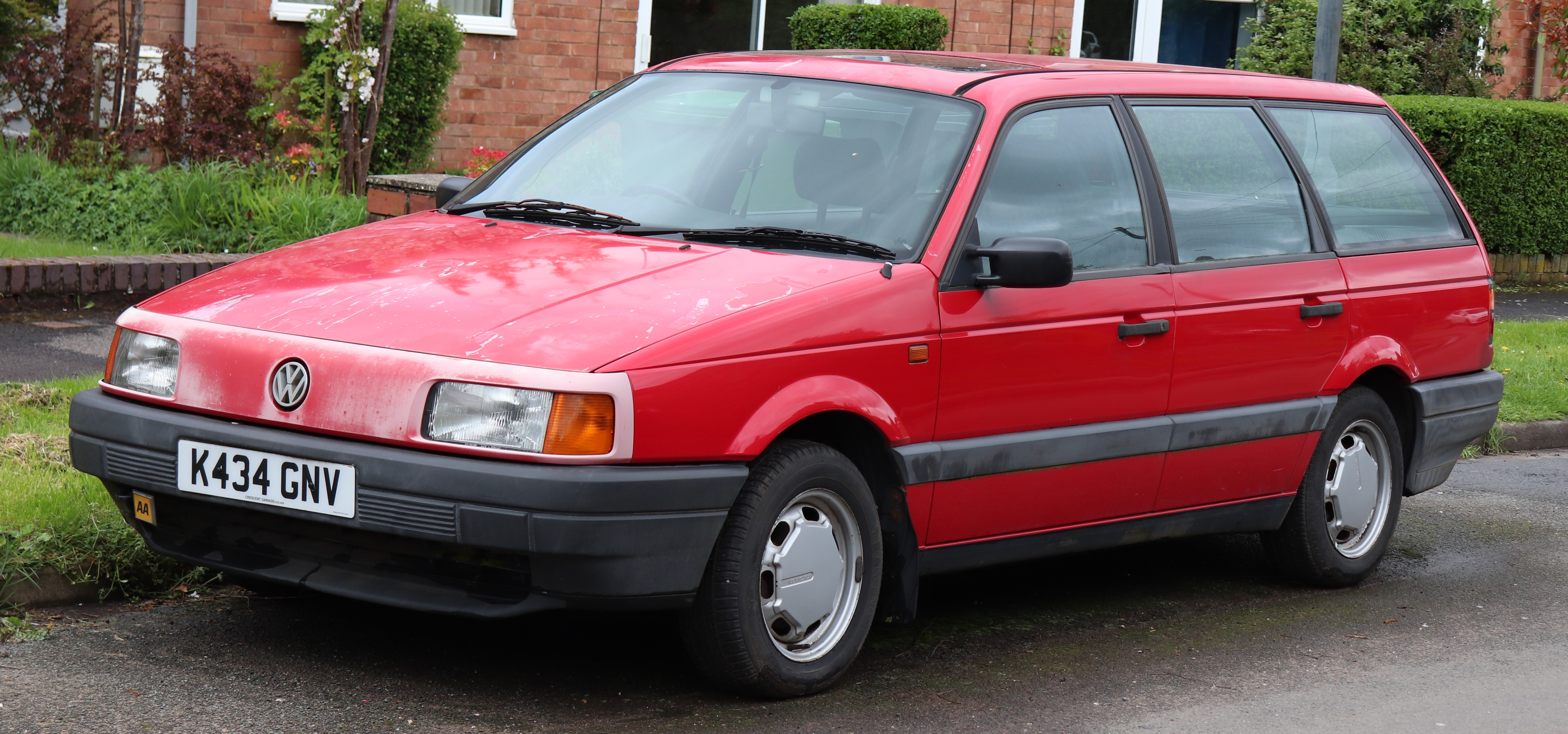 1993 Volkswagen Passat CL Injection Automatic 2.0 Front (Only 15 of this year and spec are left on the road.) Taken in Leamington Spa